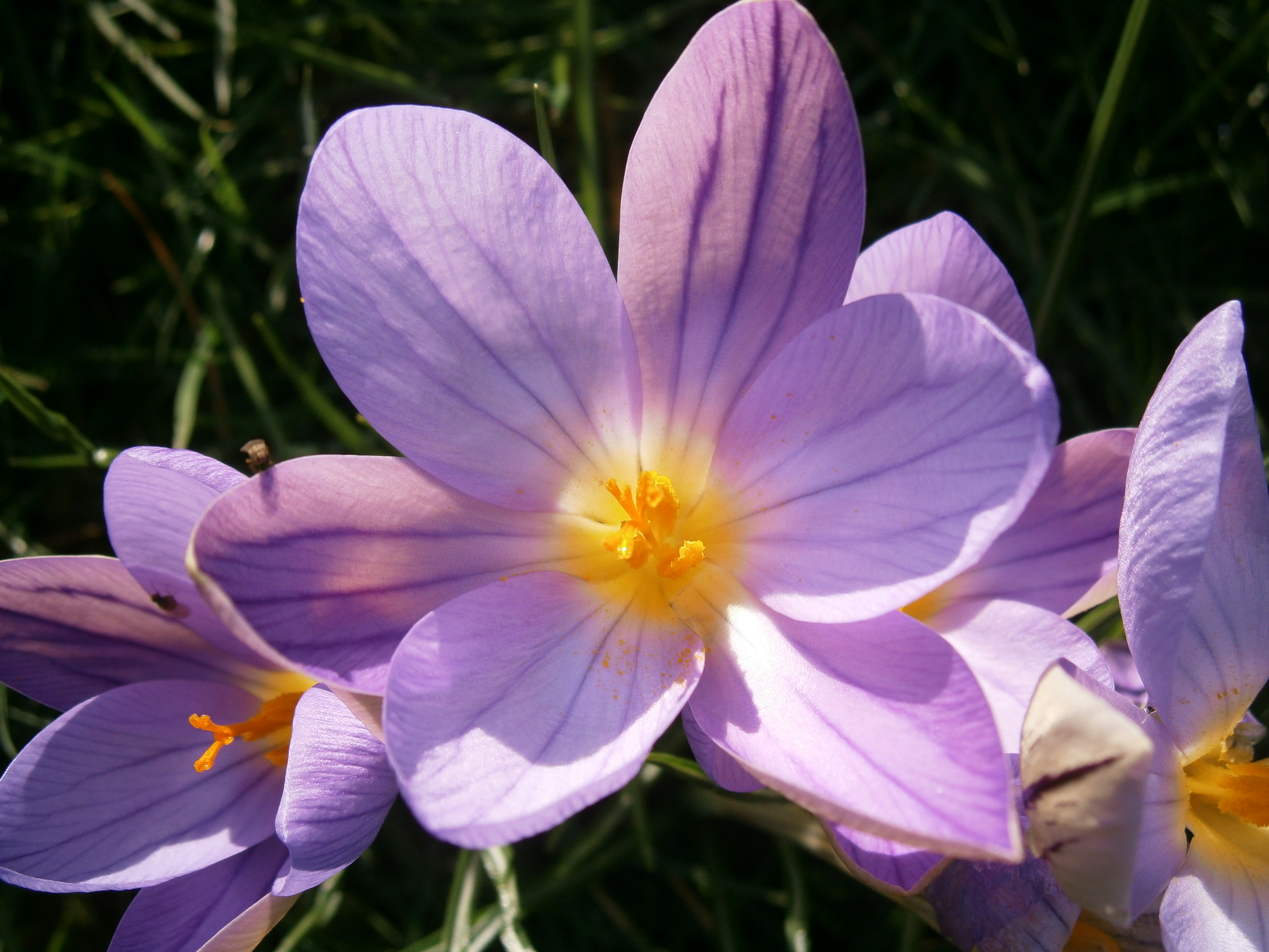 Crocus imperati 'De Jager' in-side flower